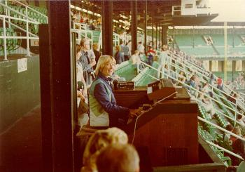 I took this picture of Nancy Faust at Comiskey Park before the game of May 21, 1980.